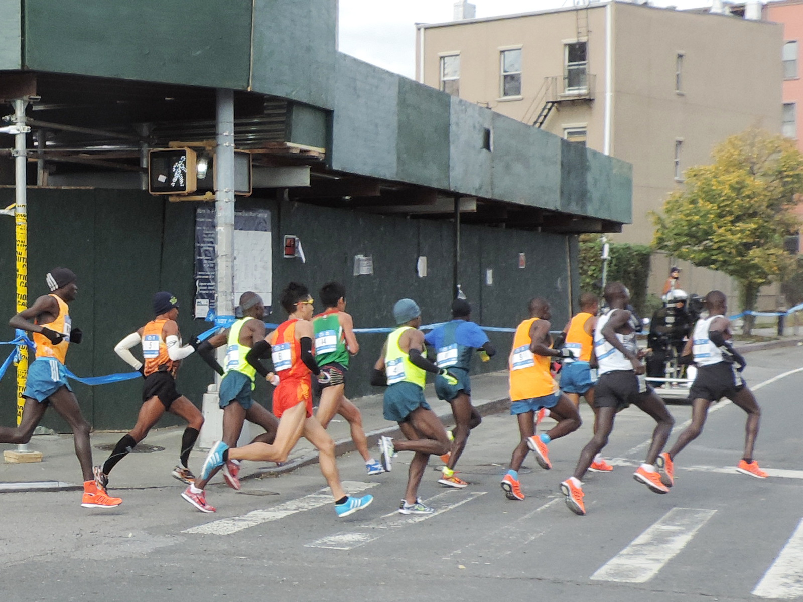 Looking north as lead men round the corner from Greenpoint Avenue to McGuiness Blvd